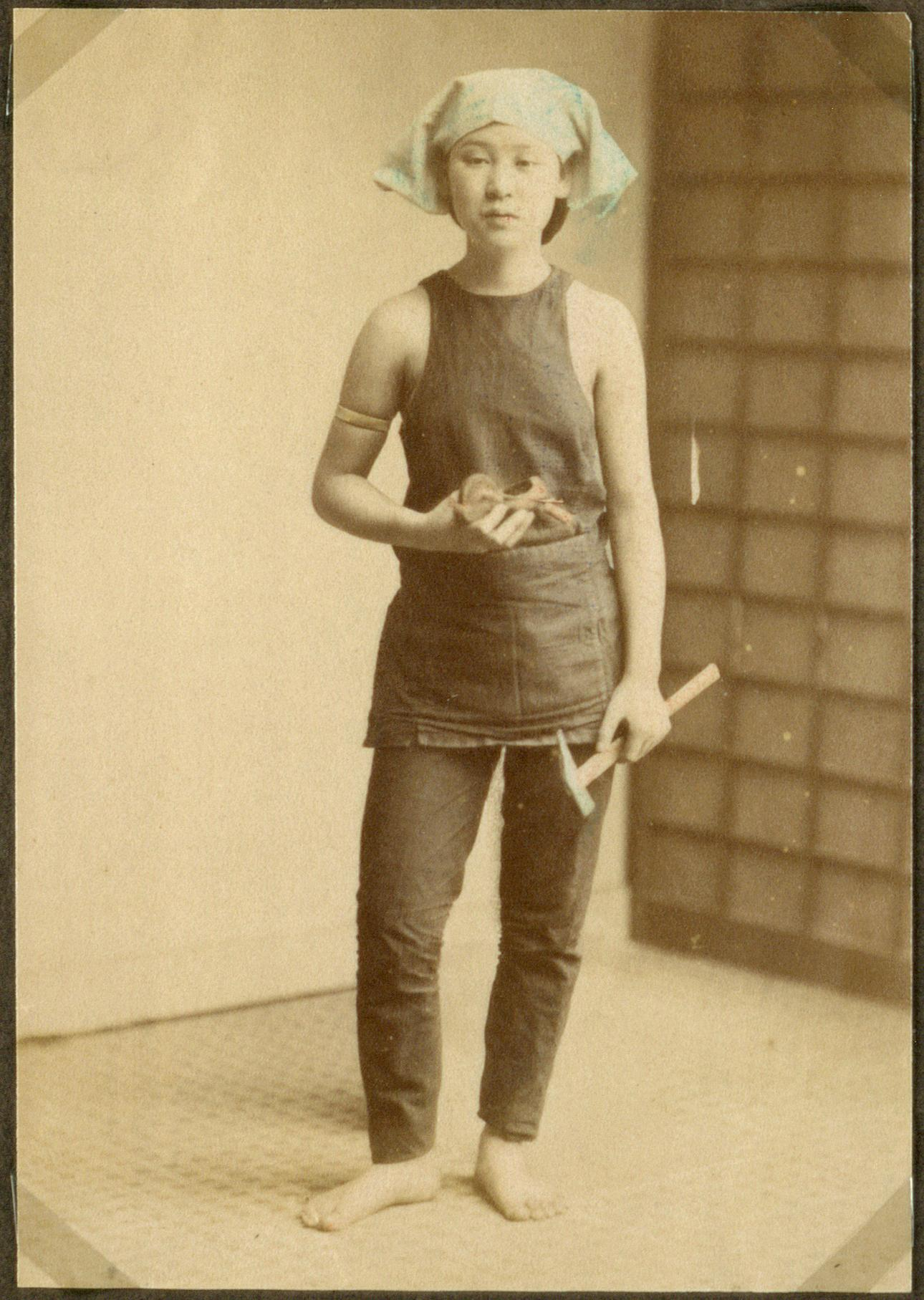 Photograph. Donated by principal Preben von Irgens-Bergh. No. es_b_00682b